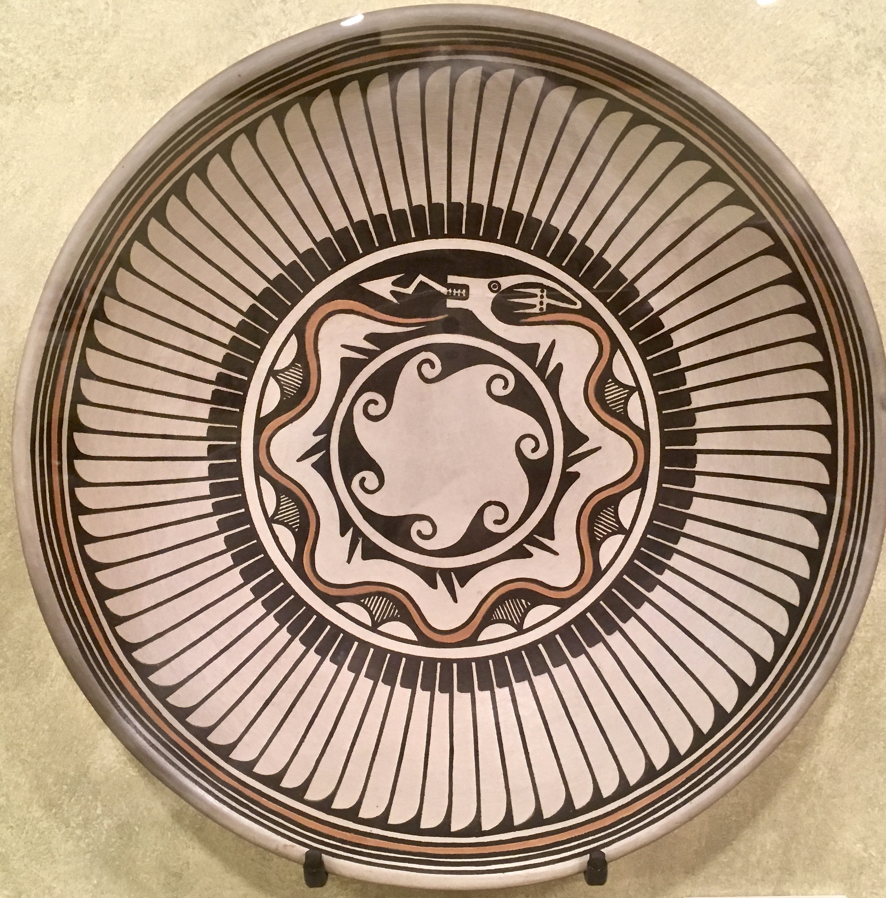 Polychrome plate with Avanyu. Signed "Maria/Popovi". Dated May 1969. Gift of Anita Da.